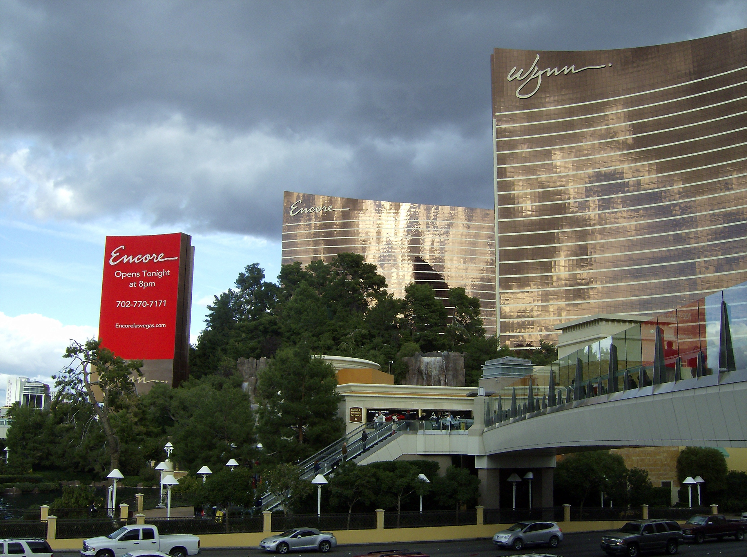 Encore and Wynn with sign announcing Encore opening Dec 23rd 2008